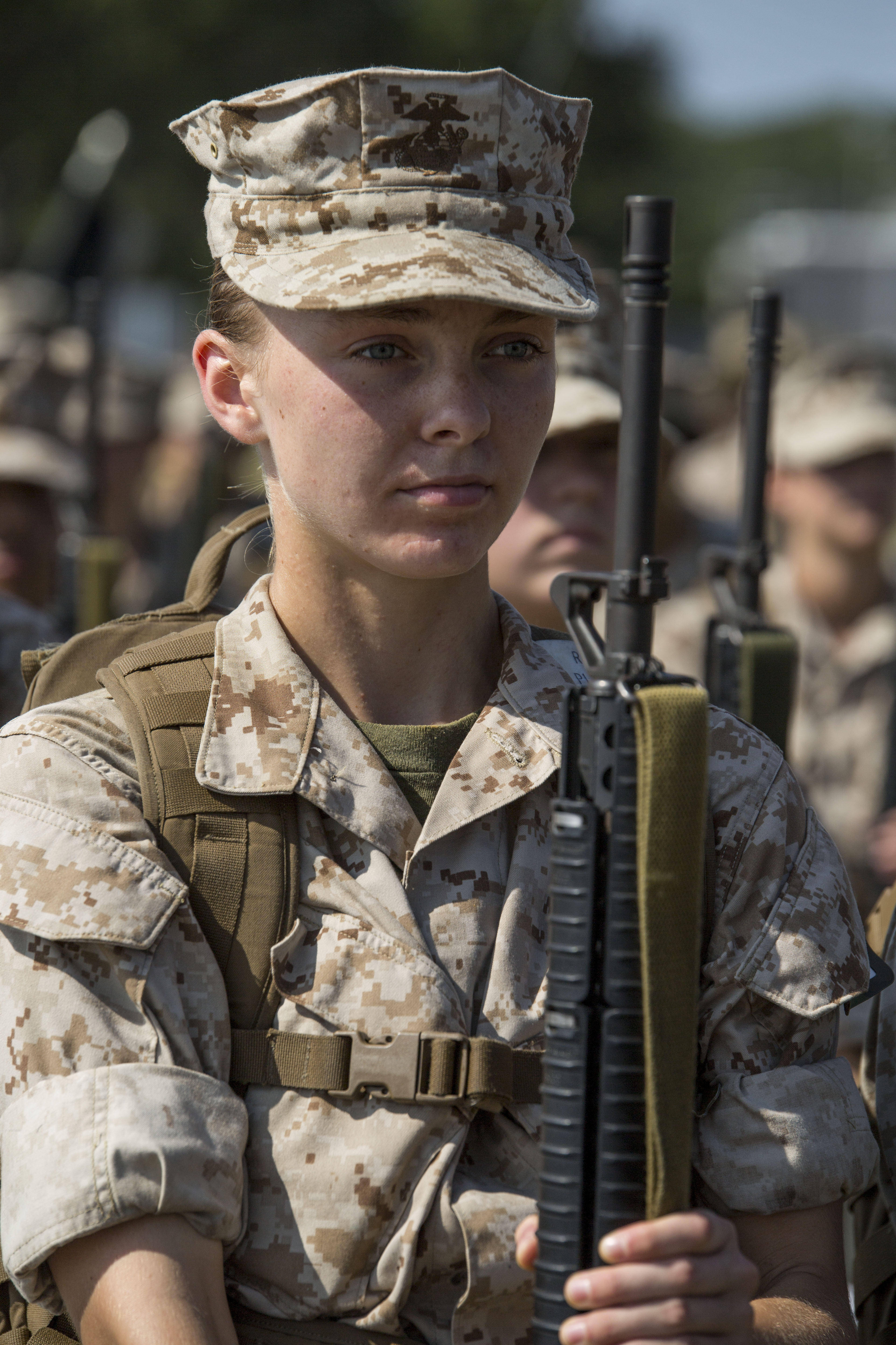 Rct. Jordan Linvog, an 18-year-old native of Blaine, Wash., is currently training at Marine Corps Recruit Depot Parris Island, S.C., in hopes of earning the title of United States Marine. Linvog is training with Platoon 4033, Oscar Company, 4th Recruit Training Battalion, and is scheduled to graduate Sept. 19, 2014. “I joined the Marine Corps to get out of my comfort zone and build a variety of skills that I can use my entire life,” said Linvog, who graduated from Blaine High School in 2014. “I am also very family oriented and have always wanted to make them proud.” Approximately 20,000 recruits come to Parris Island annually for the chance to become United States Marines by enduring 13 weeks of rigorous, transformative training. Parris Island is home to entry-level enlisted training for 50 percent of males and 100 percent of females in the Marine Corps. (Photo by Cpl. Caitlin Brink)